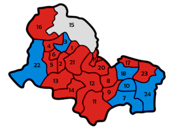 Ward map of the Wigan council with political colouring for the 1976 election. Colours: Labour Conservative Independent